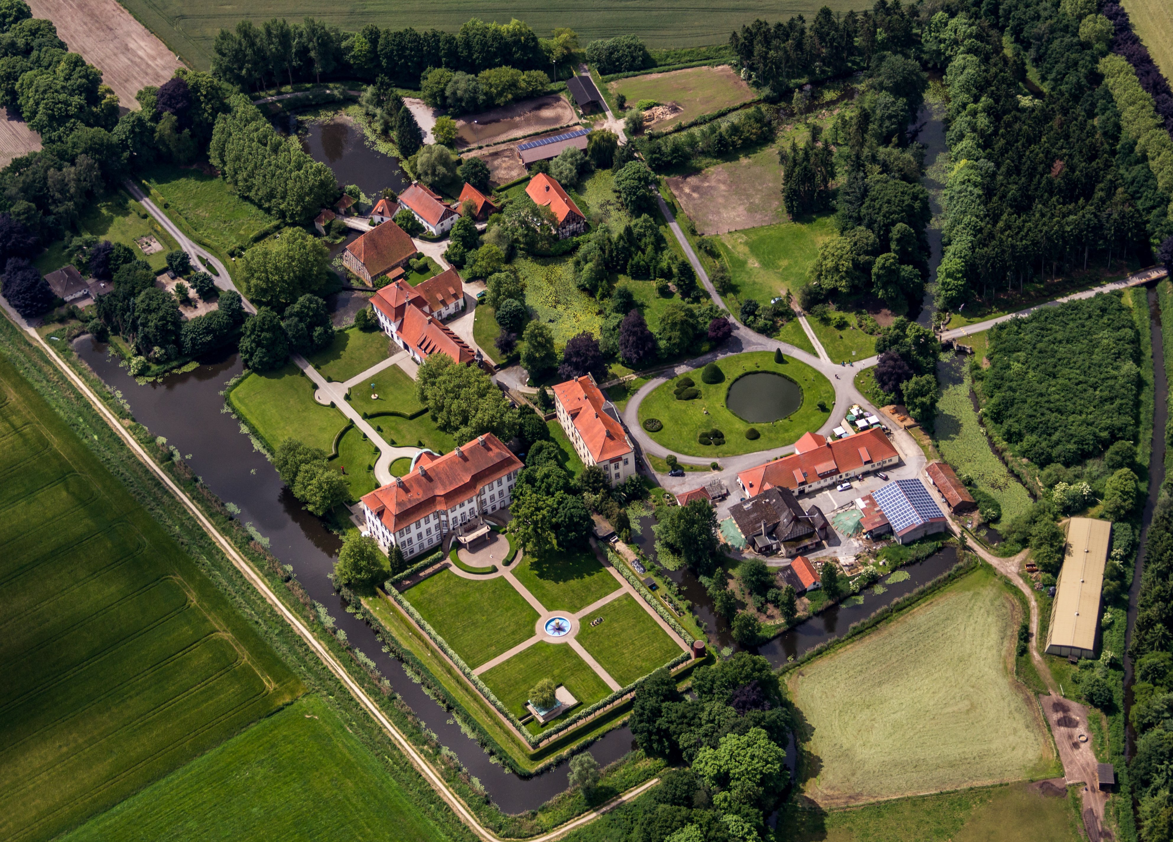 Harkotten Castle, Füchtorf, Sassenberg, North Rhine-Westphalia, Germany This image shows a heritage building in Germany, located in the North Rhine-Westphalian city Sassenberg (no. A-004). This image shows a heritage building in Germany, located in the North Rhine-Westphalian city Sassenberg (no. A-007).